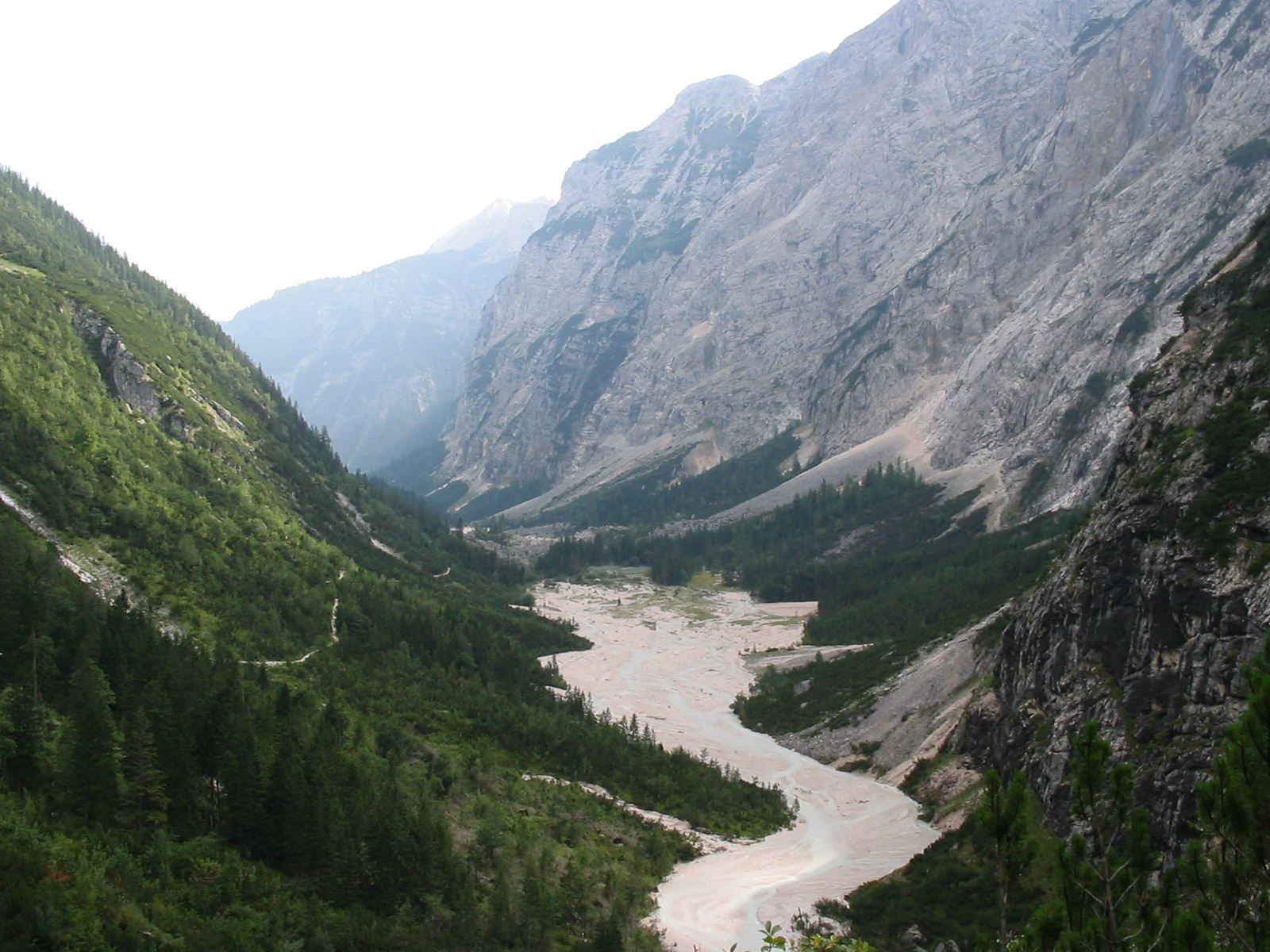 River Partnach in valley Reintal from West (a few weeks after the destruction of the Vordere Blaue Gumpe on Aug 23, 2005)